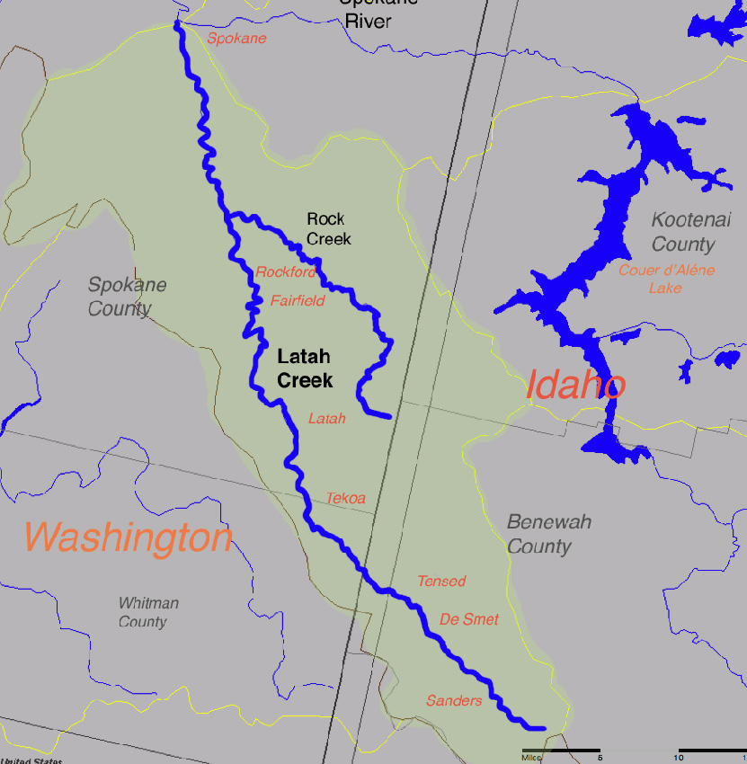 Map of the Latah Creek watershed, in eastern Washington and western Idaho in the United States.